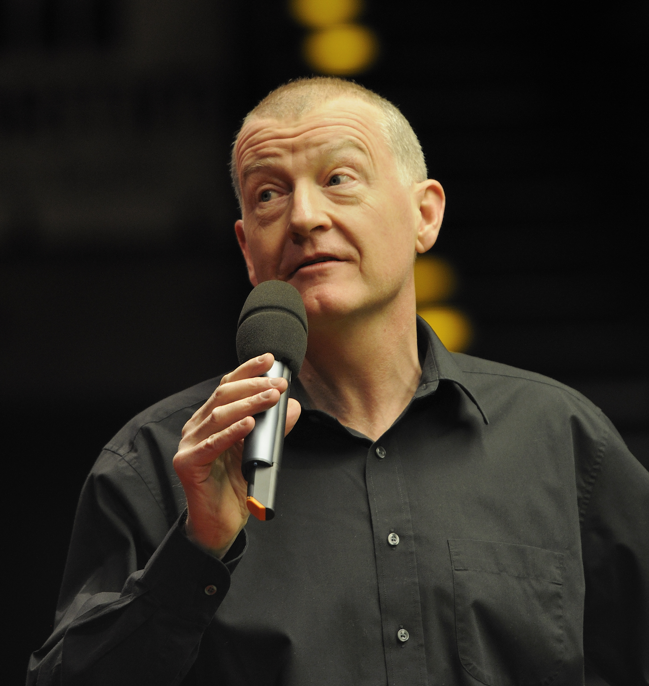 Picture taken in Berlin during the Snooker German Masters in 2011. Steve Davis.